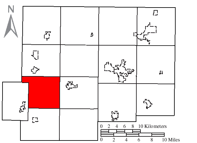 Made by the US Census and modified by myself